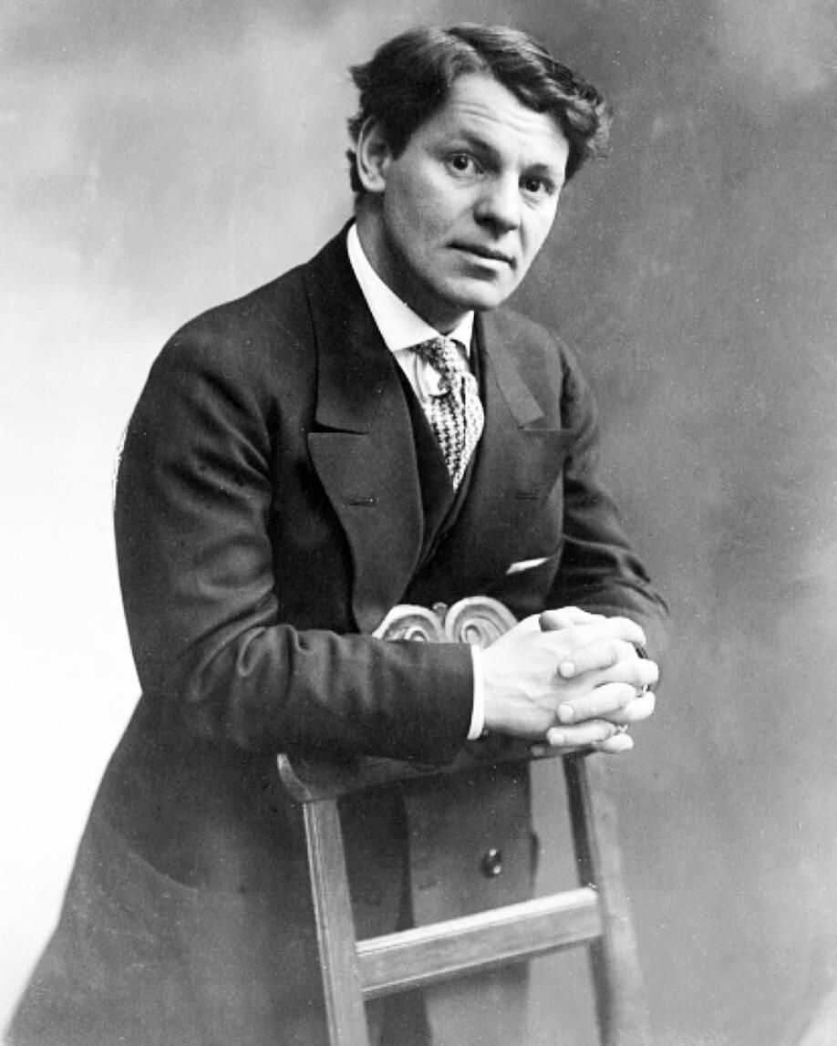 Alexander Moissi chair portrait